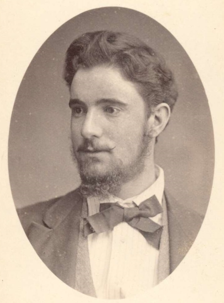 Portrait of the Australian politician Alfred Deakin (1856–1919) in his youth.